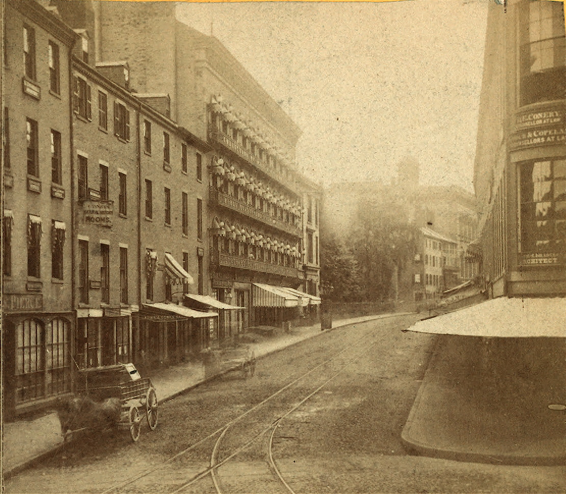 Tremont Street, Boston, 19th c.